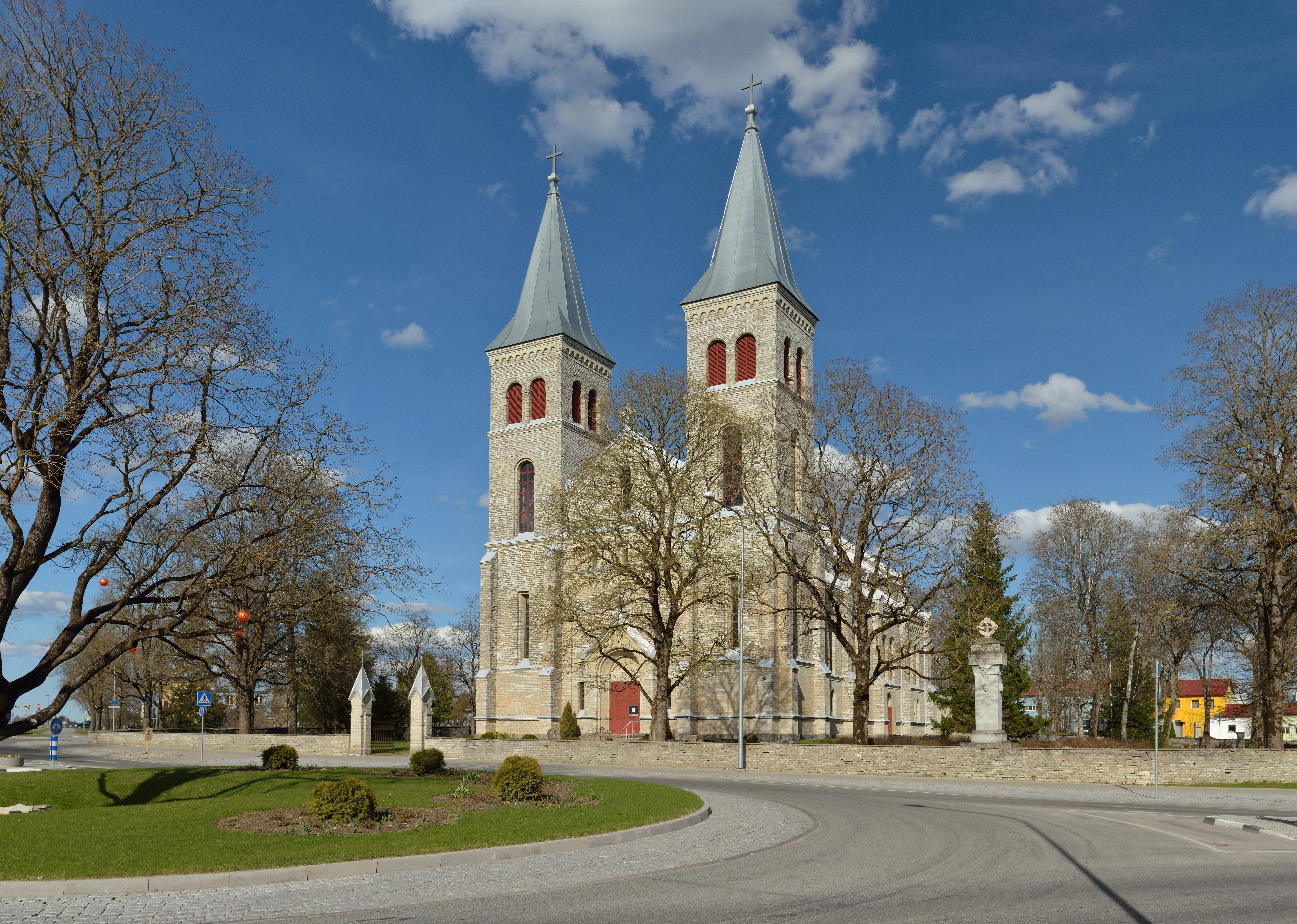 Rapla St Mary Magdalene Church, built in 1899-1901